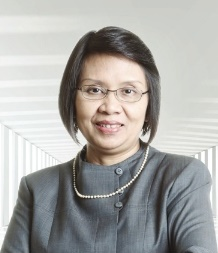 Vice Minister of Finance of the Republic of Indonesia, Anna Ratnawati